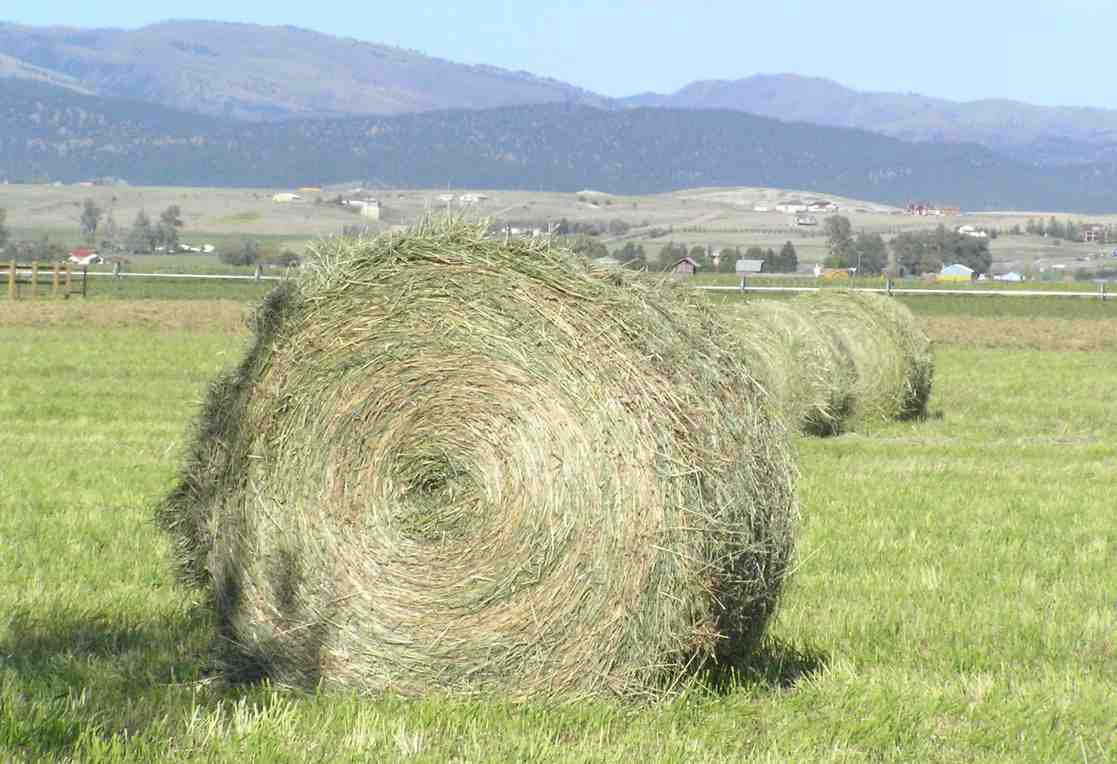 A freshly baled round bale in Montana